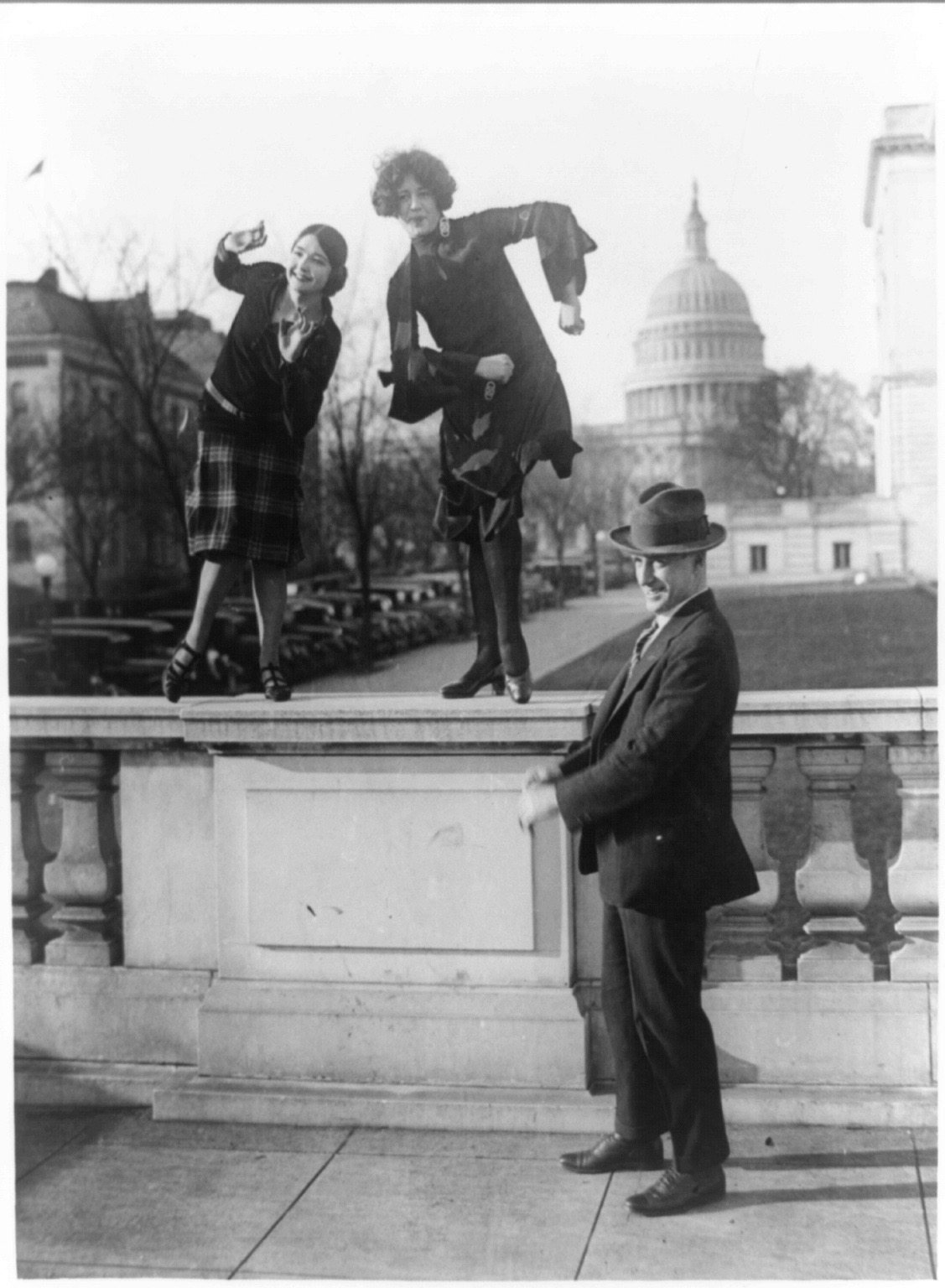 Thomas S. McMillan. Library of Congress description: "Charleston at the Capitol".